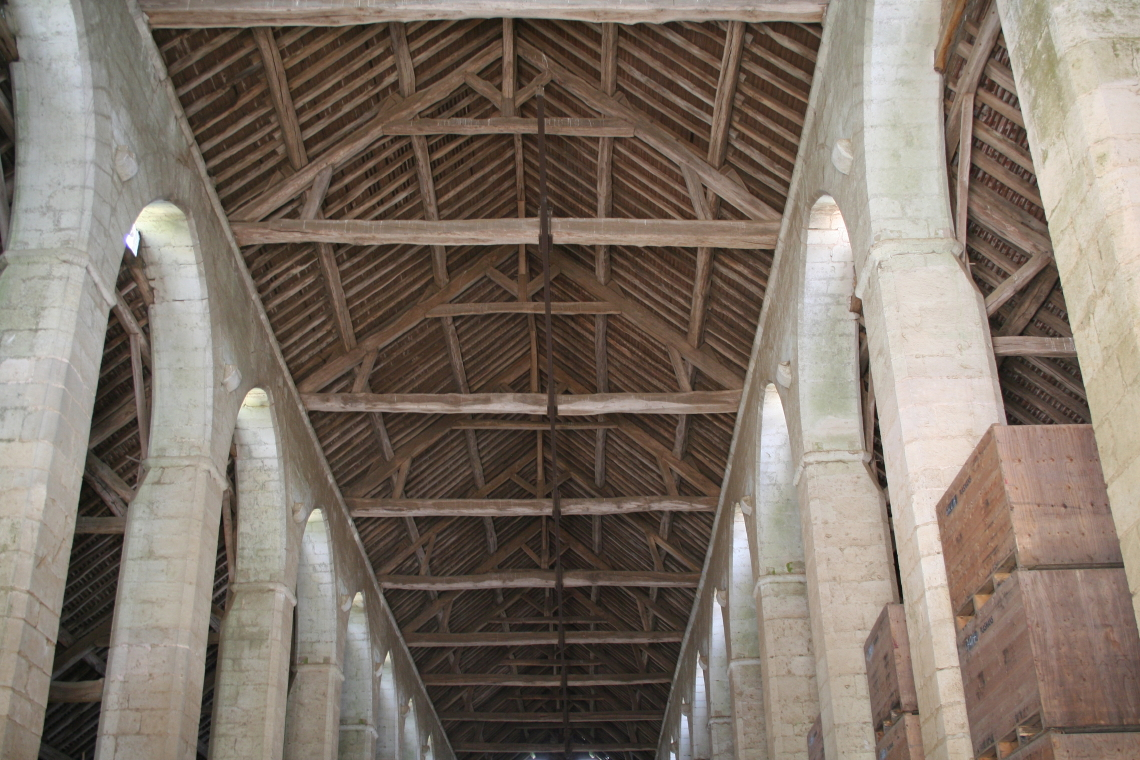 Roof of the barn of Vaulerent, Villeron, Val-d'Oise, France. Probably built at the second half of the 15th cent.